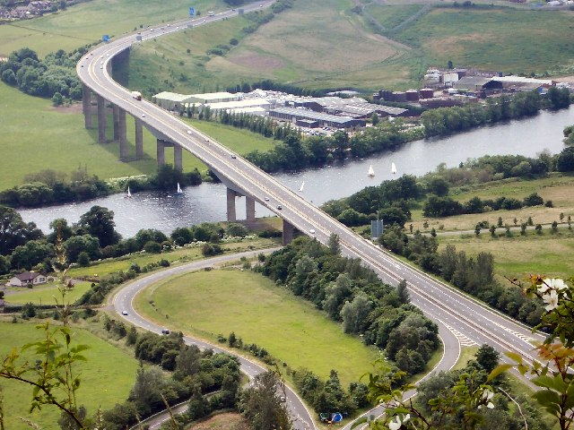 Looking down towards Friarton Bridge and the River Tay from the cliffs of Kinnoull Hill, with a clear view of the M9 motorway junction on the north bank.